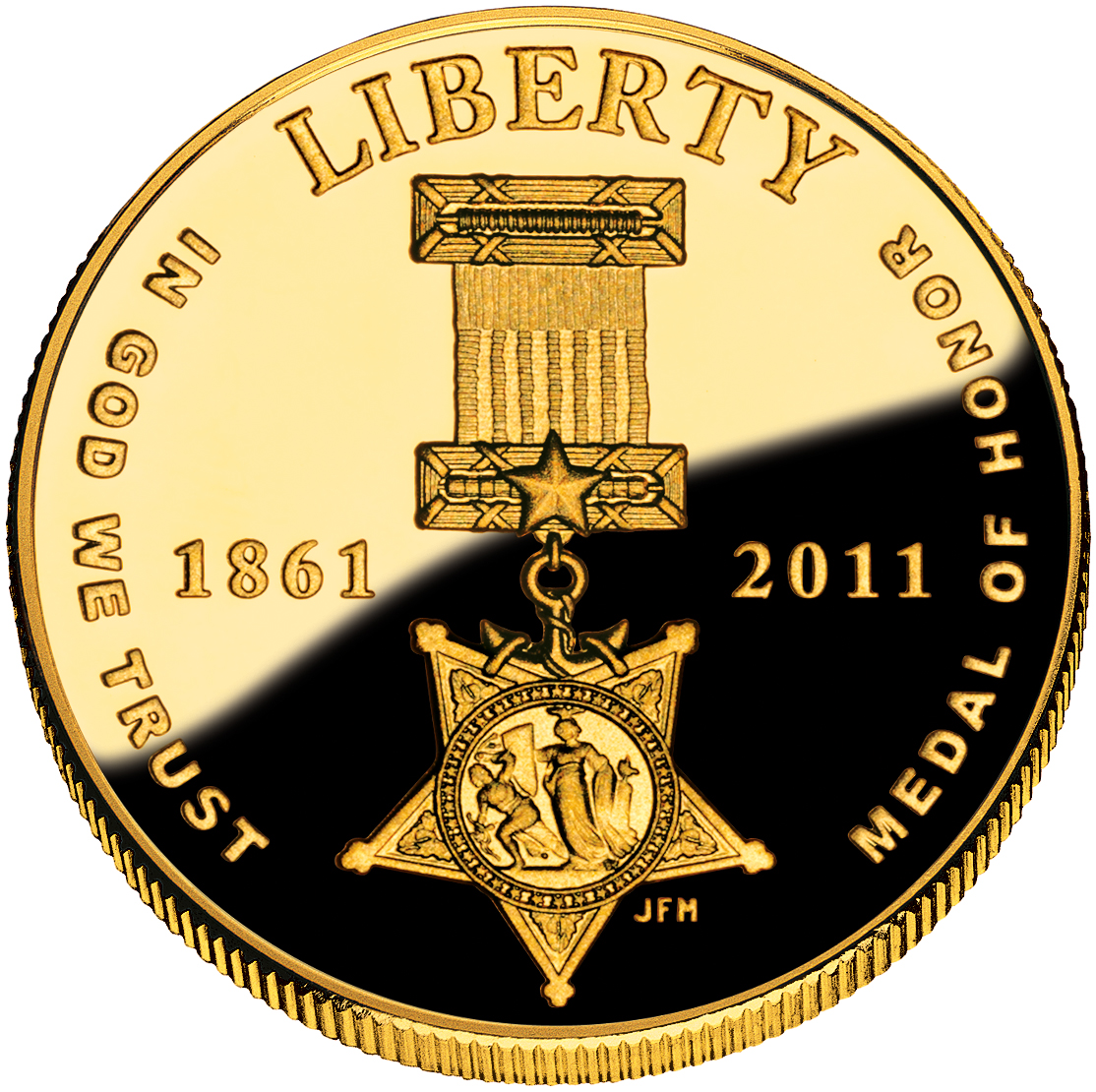 Obverse of a US$5 gold commemorative coin proof. Depicts the original Medal of Honor authorized by Congress in 1861 as the Navy's highest personal decoration. The inscriptions are LIBERTY, 1861–2011, IN GOD WE TRUST and MEDAL OF HONOR.